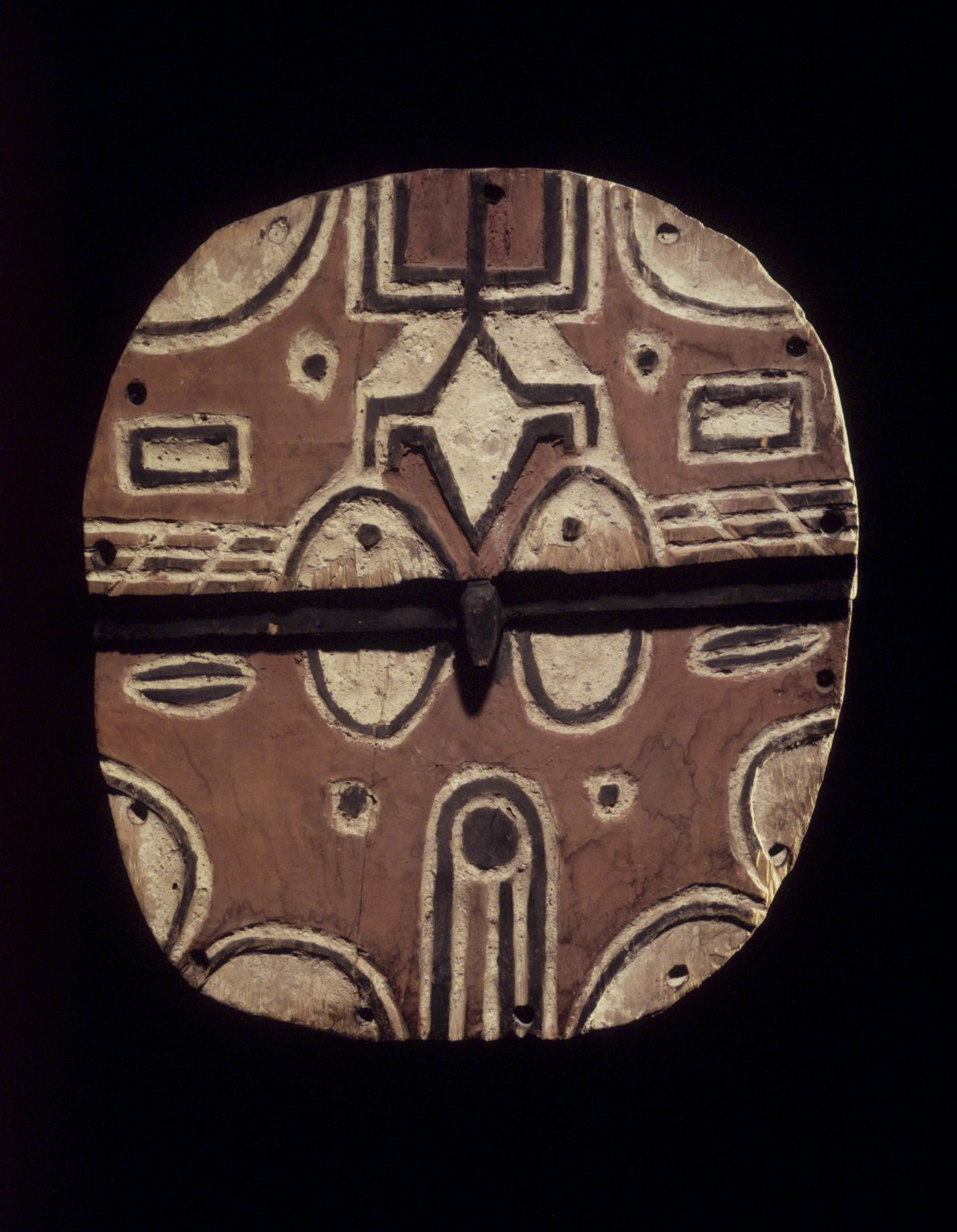 Mask